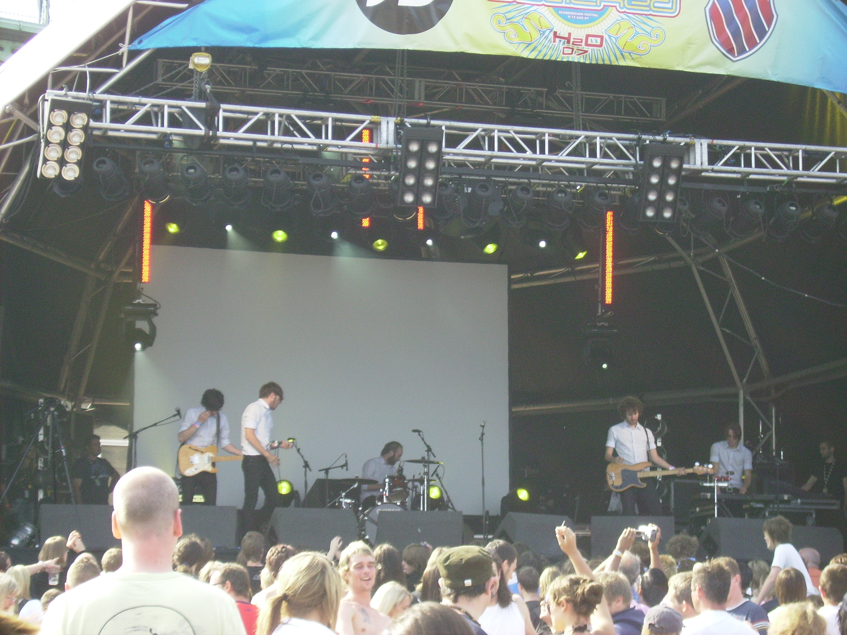 picture taken at Beached Festival, Scarborough